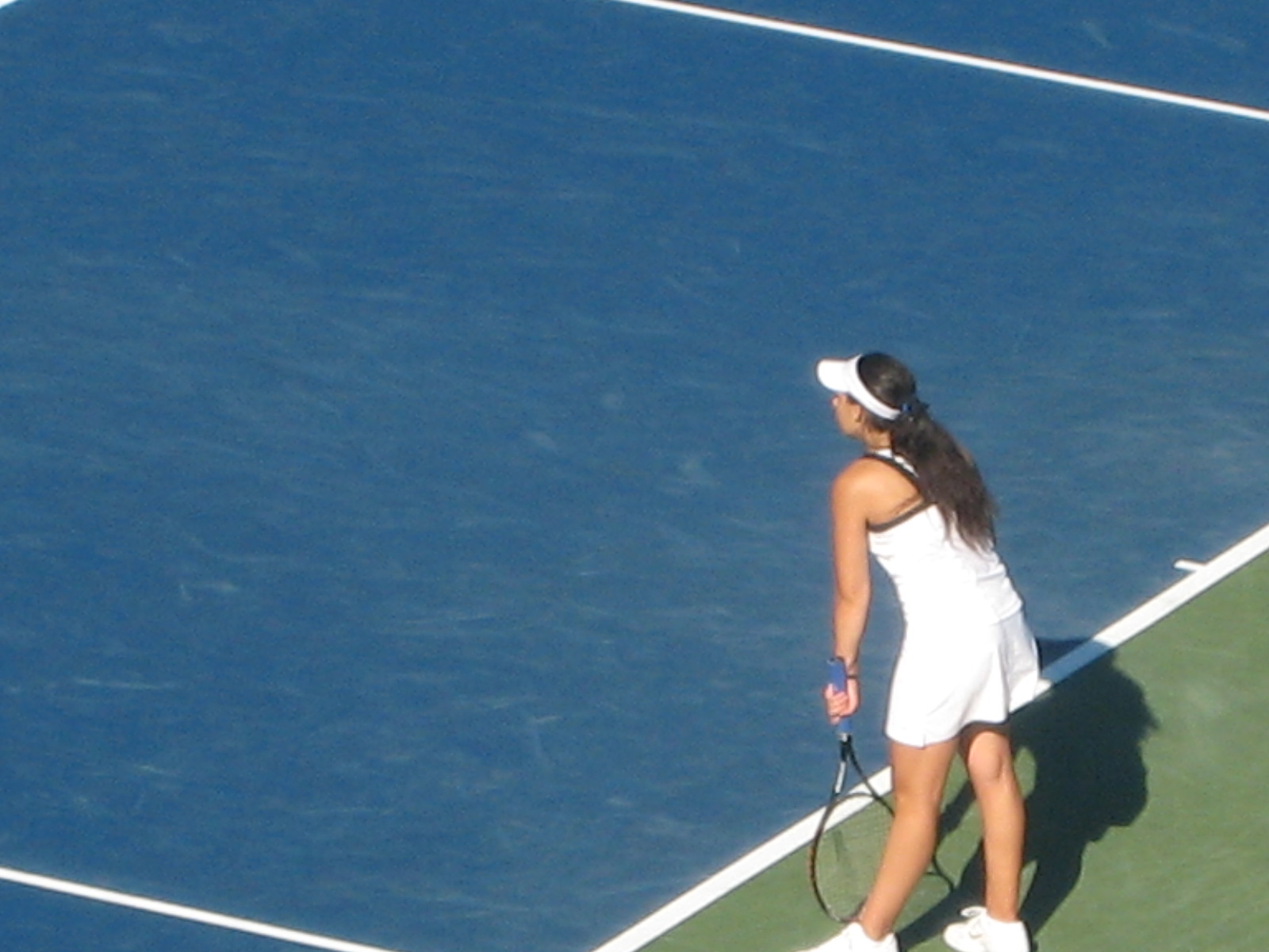 Marion Bartoli at the 2008 Pilot Pen Tennis tournament.